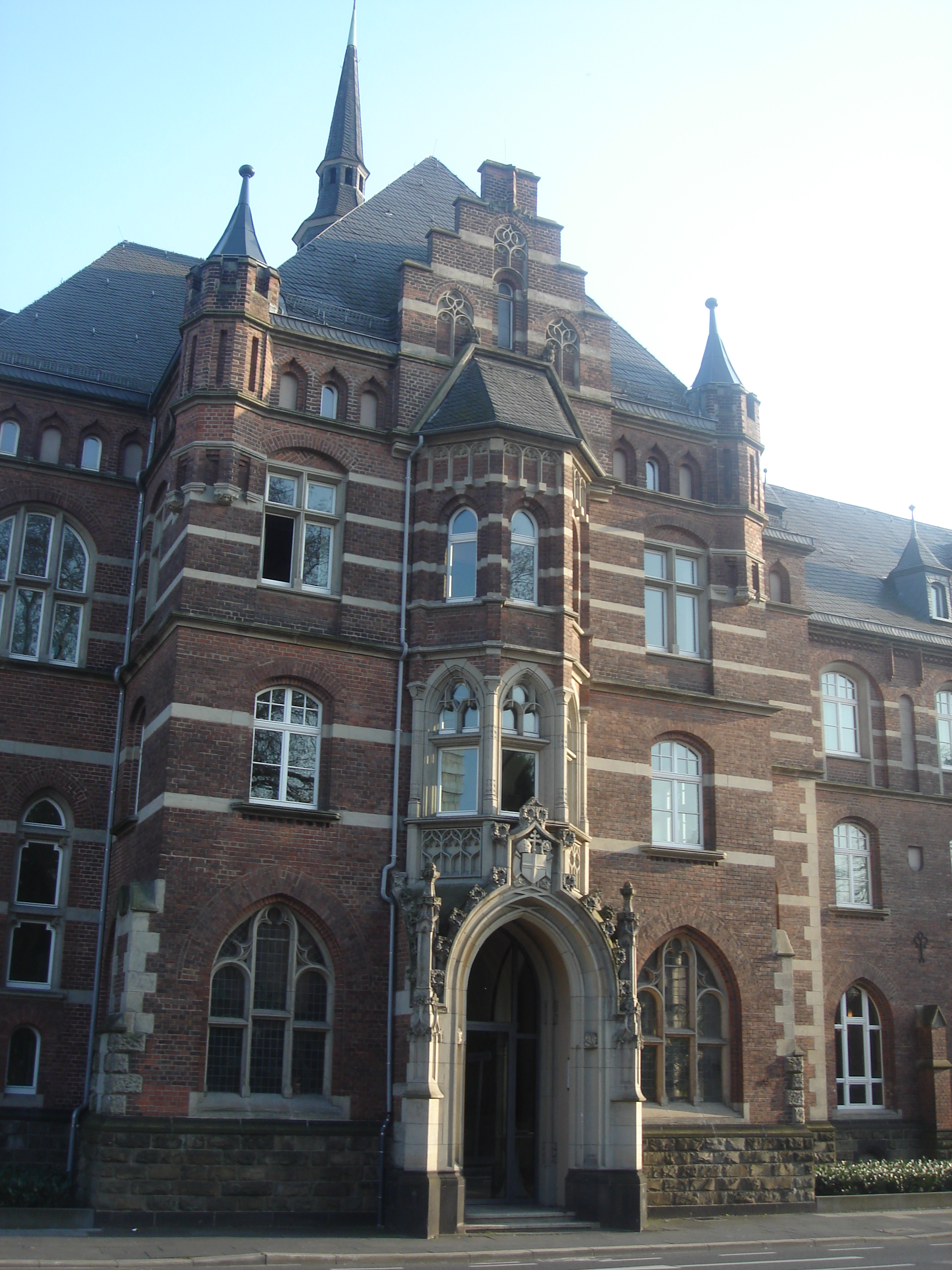 The Collegium Leoninum in Bonn, Germany, main entrance.